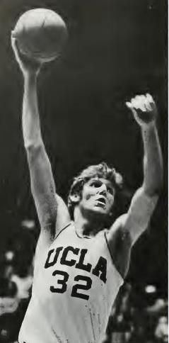 College basketball player Bill Walton playing for the UCLA Bruins